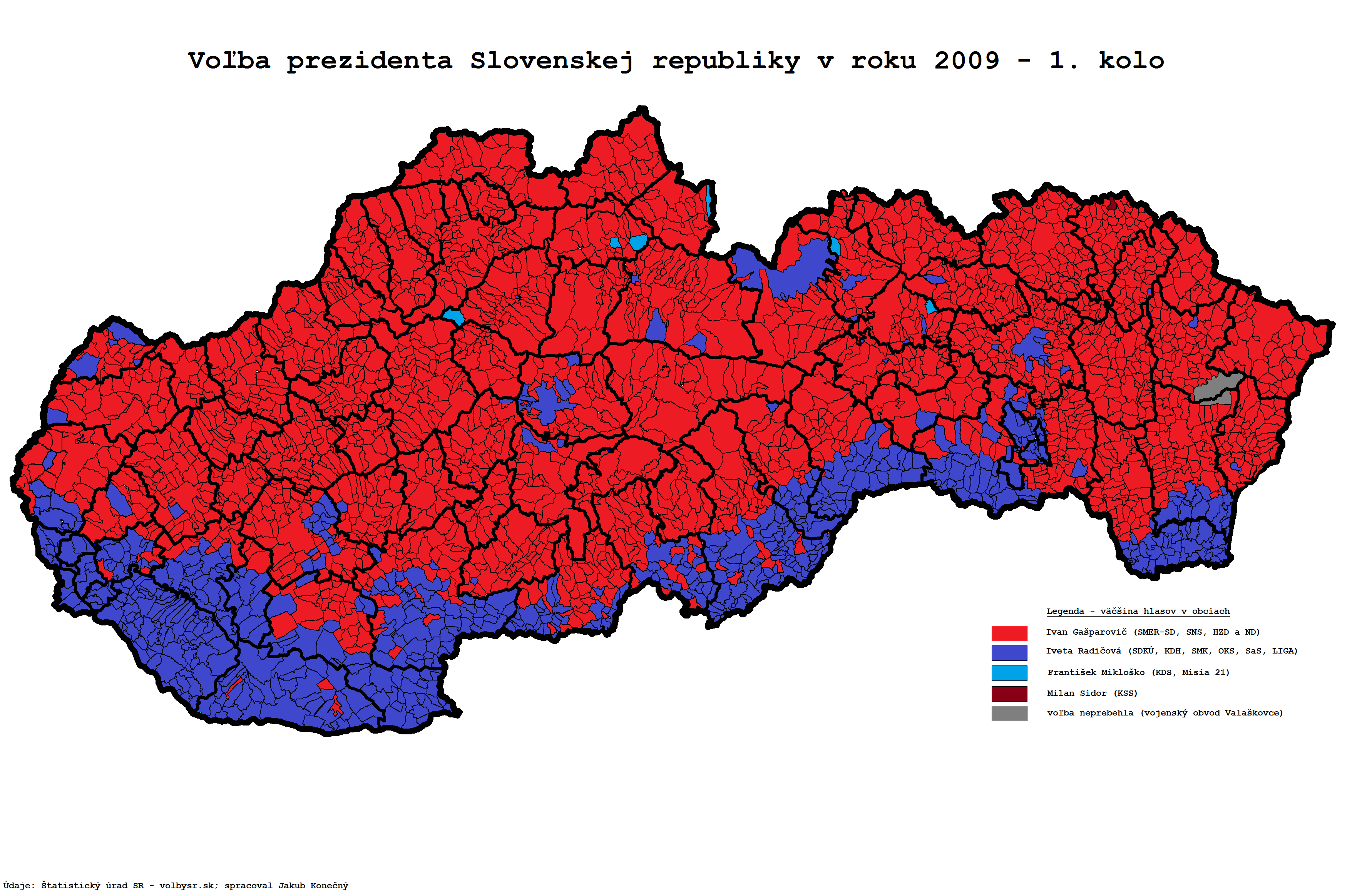 The results of the first round of presidential elections in Slovakia in 2009. The municipalities are coloured in the colour of winning candidate in each municipality. In cases with indecisive result, both candidates' colours are included.